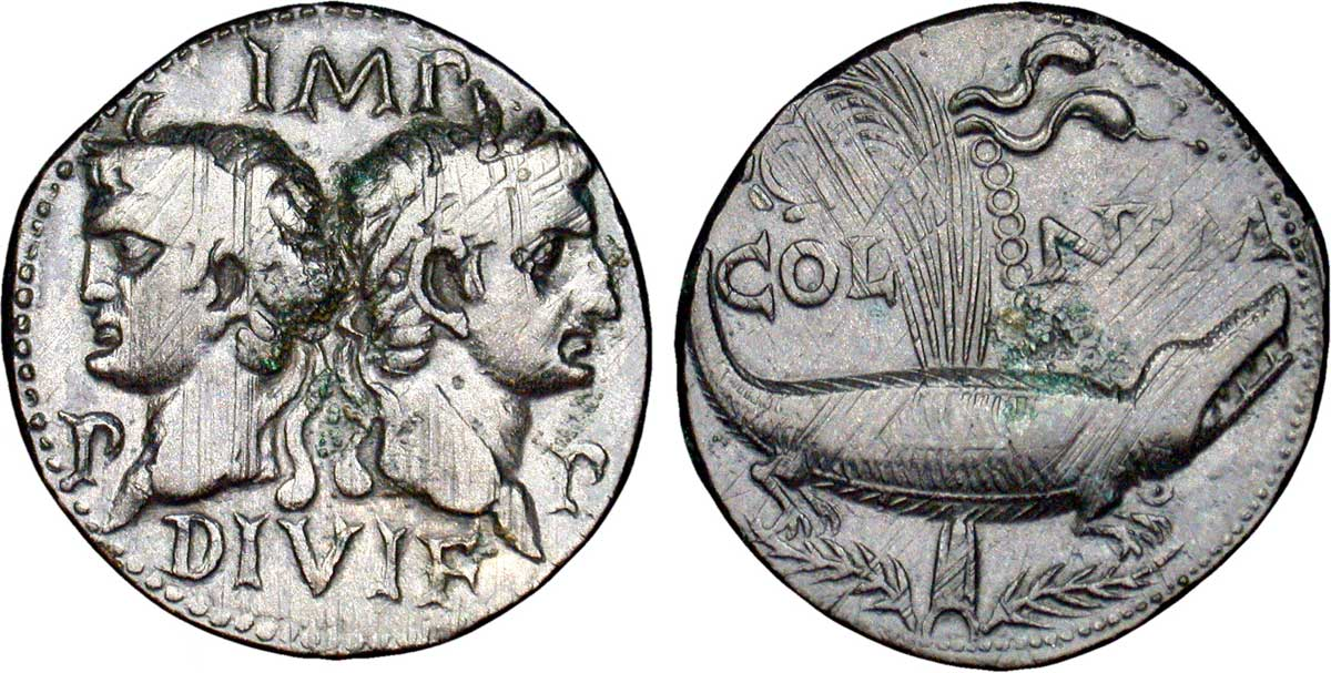 Augustus & Agrippa Æ Dupondius. Nemausus Mint. Struck c. 20-10 BC. Obverse side: IMP DIVI F, back-to-back heads of Agrippa, wearing rostral crown, & Augustus, bare. Reverse side: COL NEM, crocodile chained to palm, wreath with long ties trailing above.